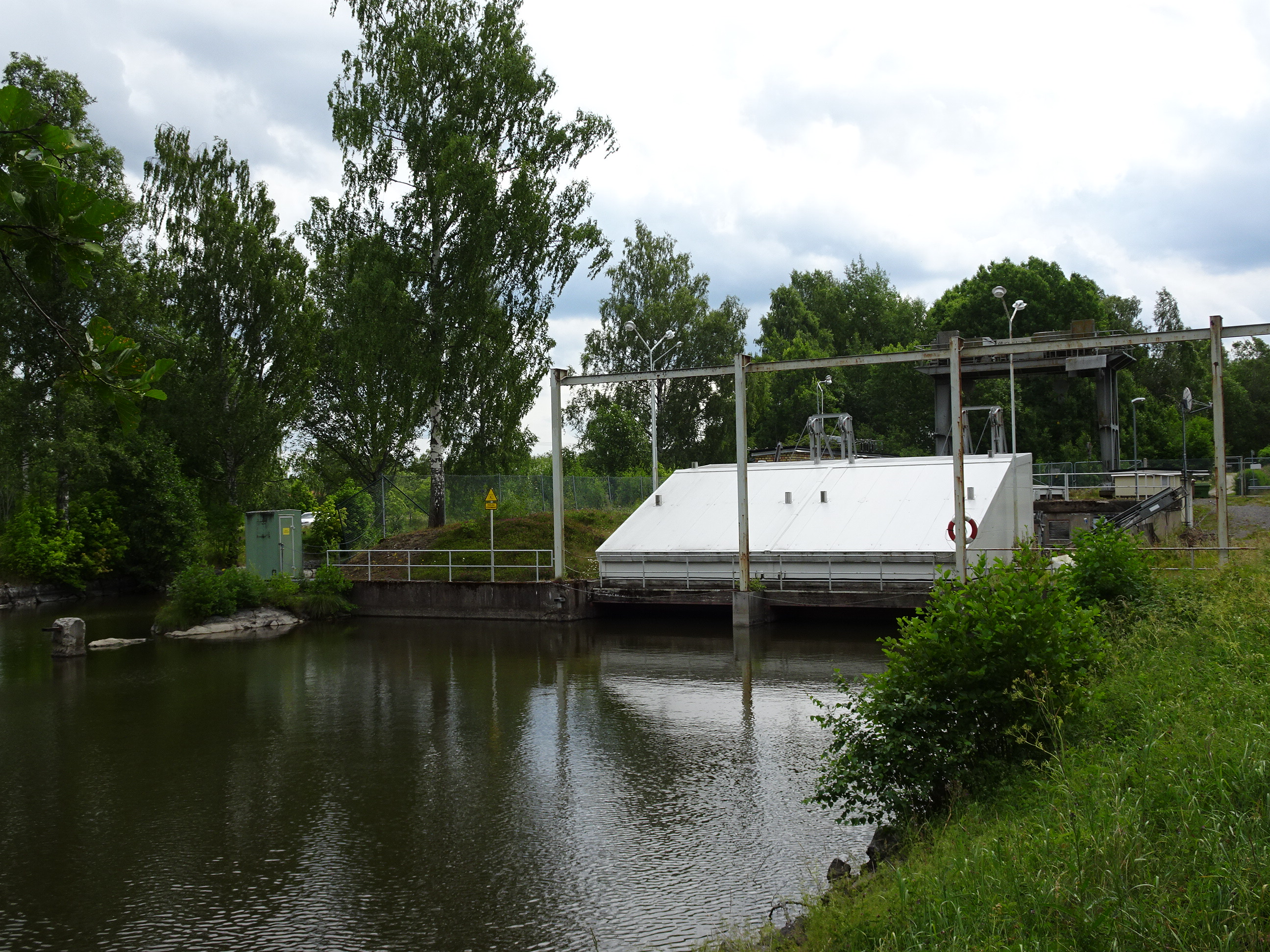 Ramnäs hydroelectric power station in the river Kolbäcksån, in Ramnäs, Sweden.